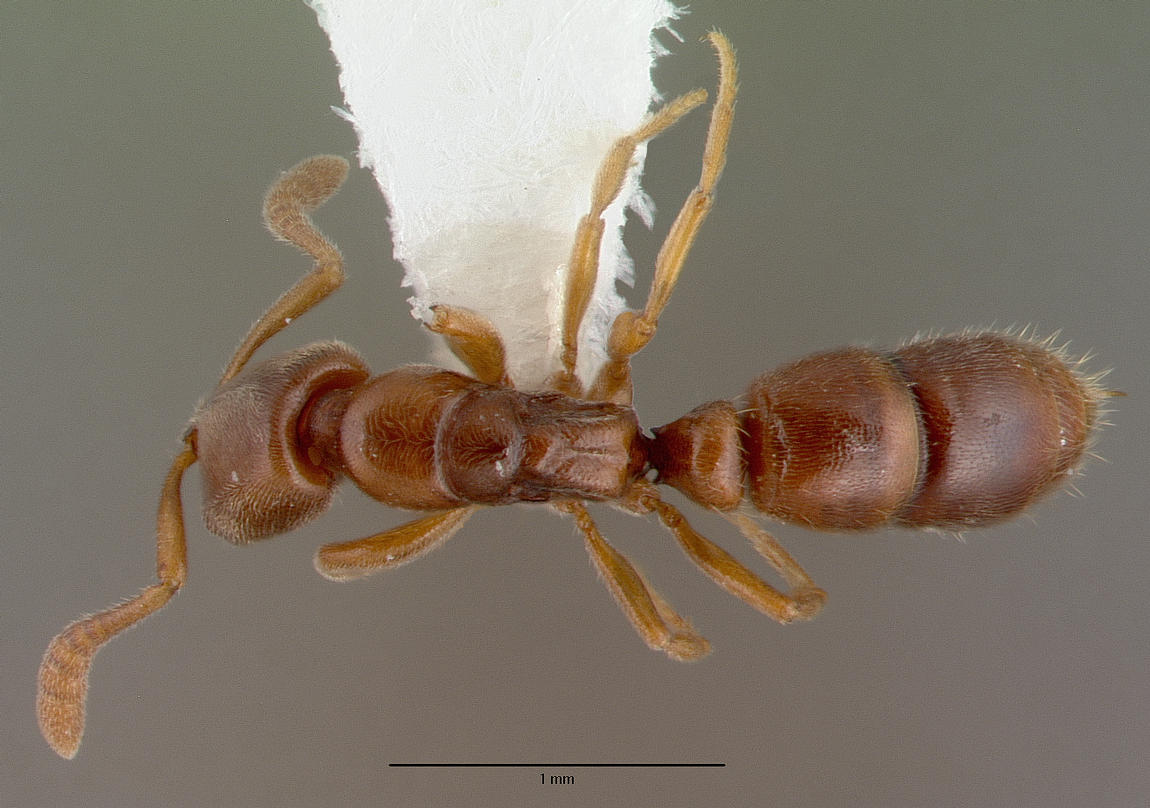 Dorsal view of ant Ponera coarctata specimen casent0008634.